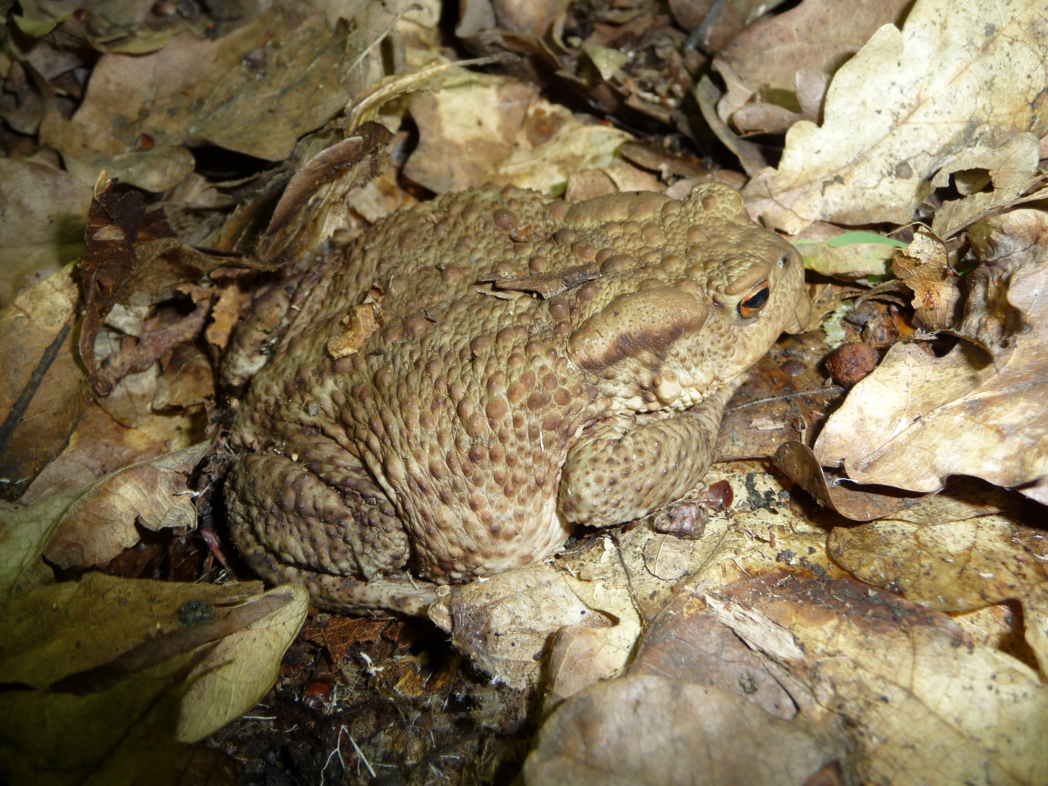 The common toad or european toad (Bufo bufo). Ukraine. Example of an excellent camouflage to a background